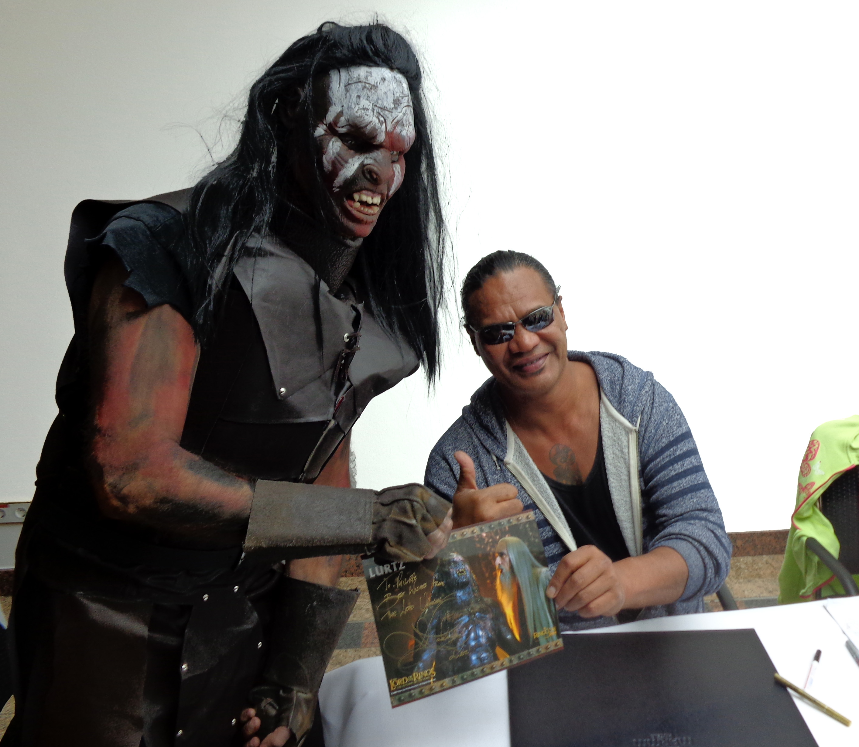 Lawrence Makoare at the Hobbitcon III convention in Bonn, Germany on April 6, 2015 with a fan cosplaying as his character Lurtz.